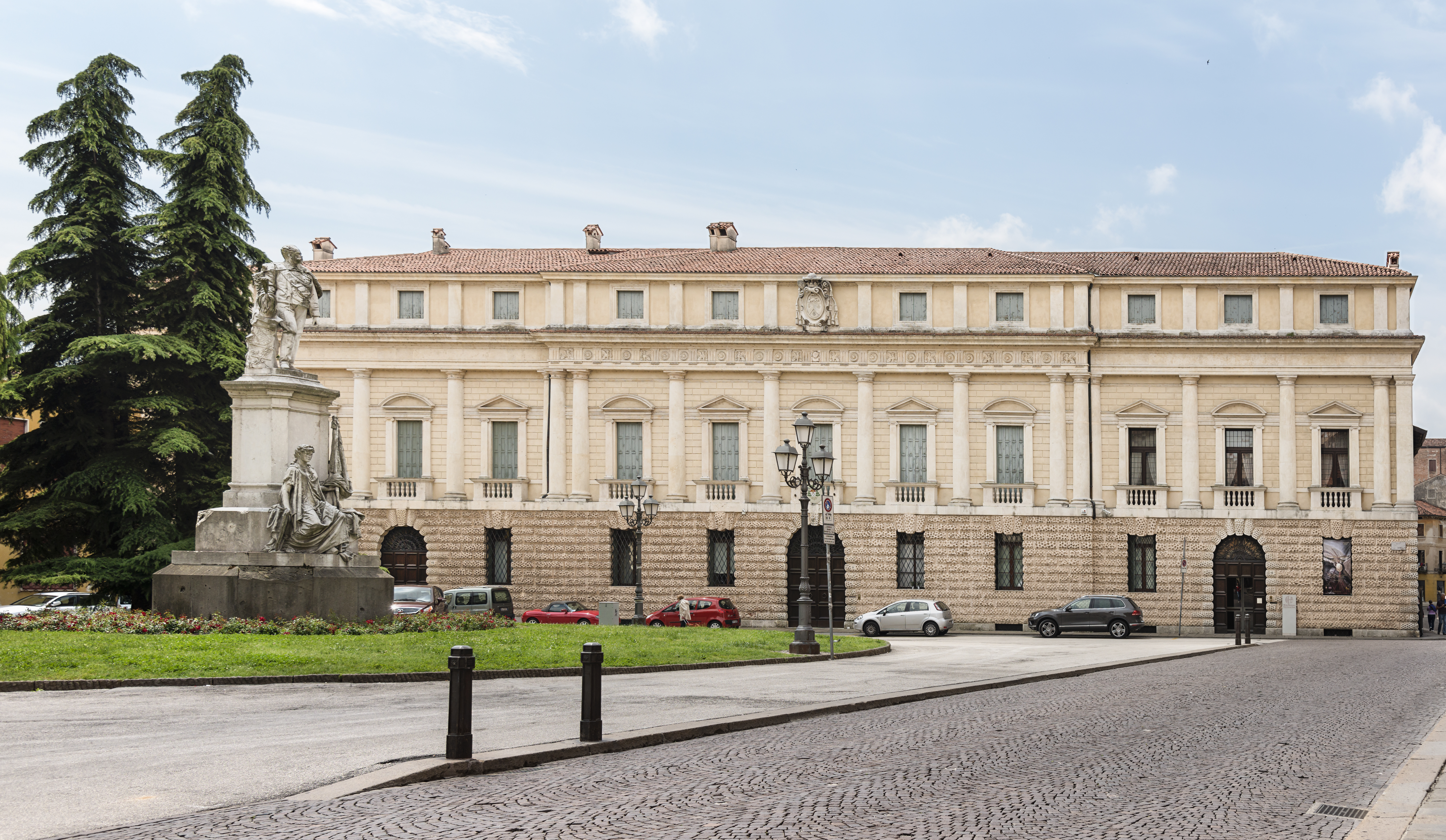 Bishop's Palace (Palazzo Vescovile) Diocesan Museum - Facade on Piazza del Duomo in Vicenza